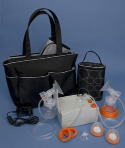 Breast pump with tote and kit